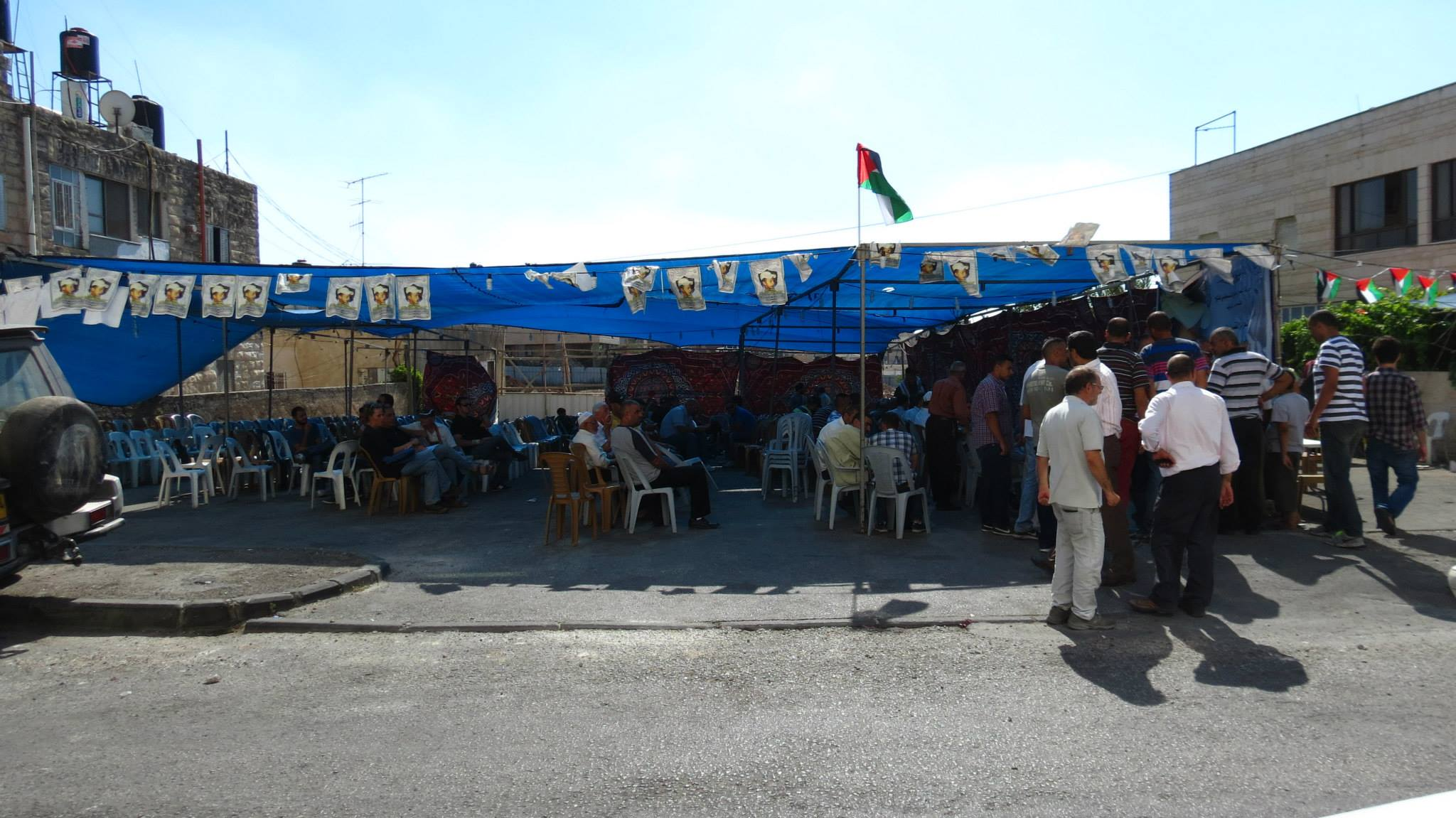 Muhamed Abu Khdeir mourning tent, East Jerusalem